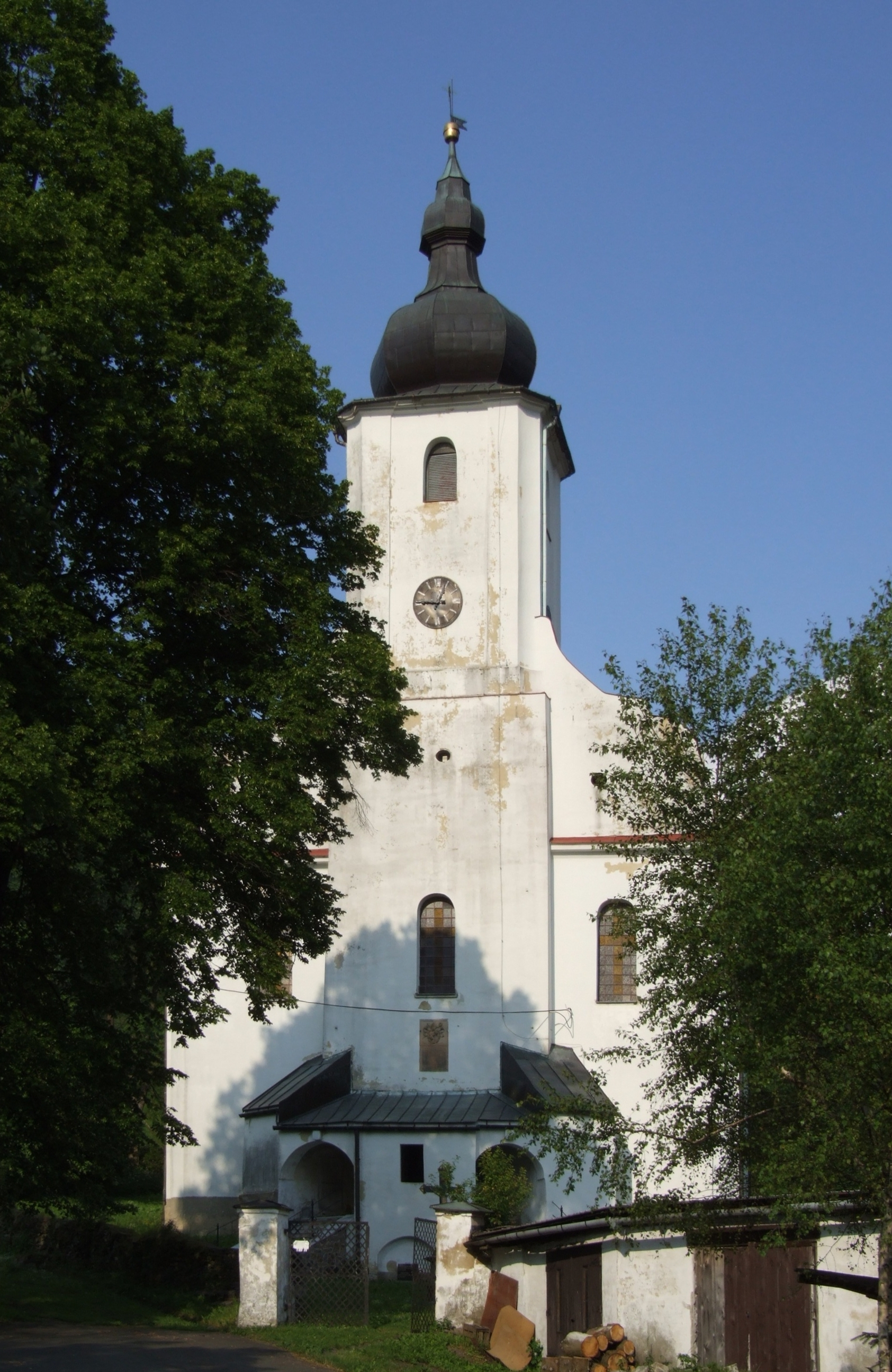 Heřmanovice (Hermannstadt) - St. Andrew church